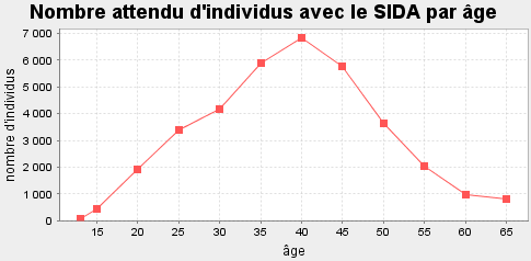 Diagram of the estimated number of persons diagnosed with AIDS in the 50 states and the District of Columbia per ages at time of diagnosis.